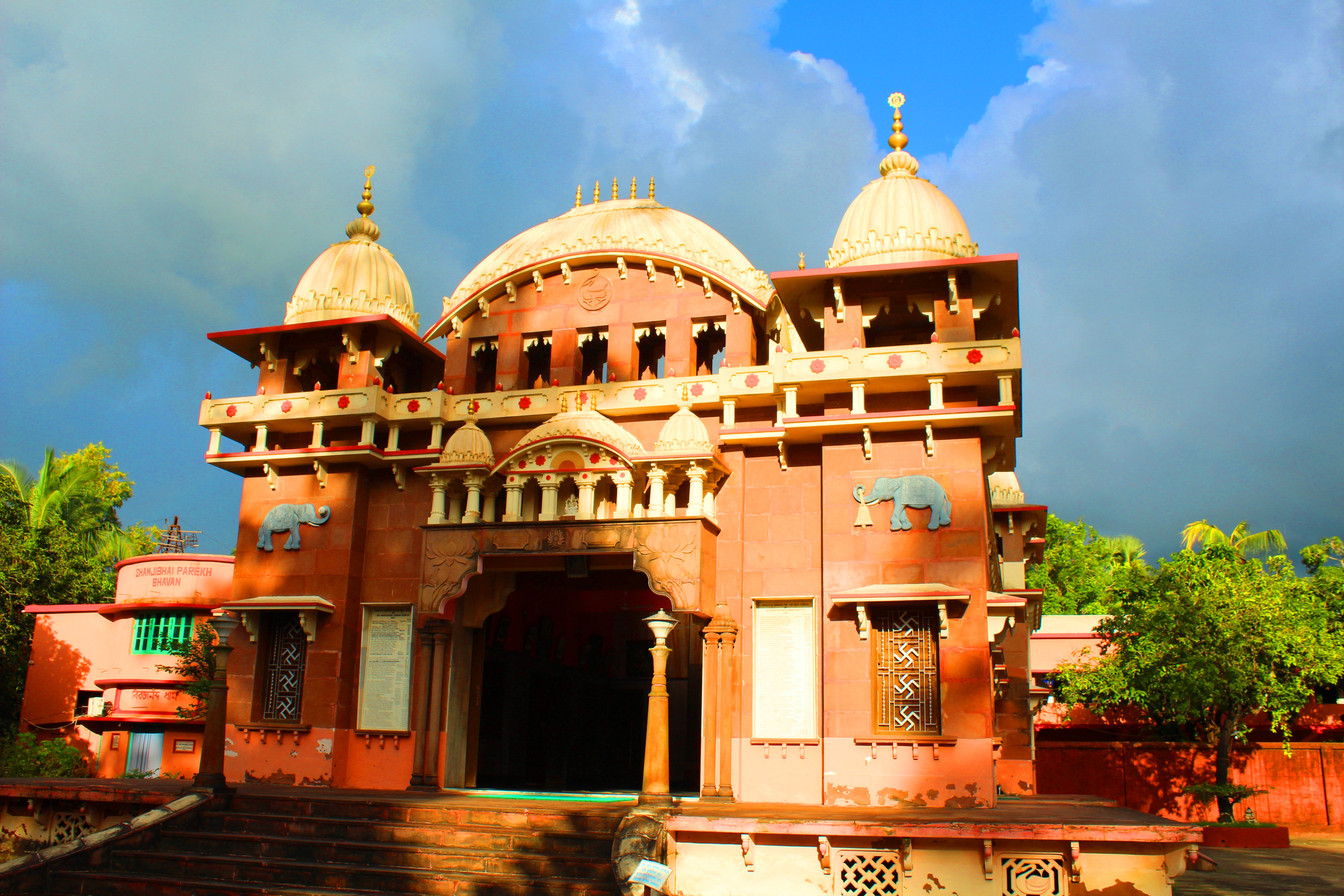 Nimpith Ramakrishna Mission of South 24 Parganas